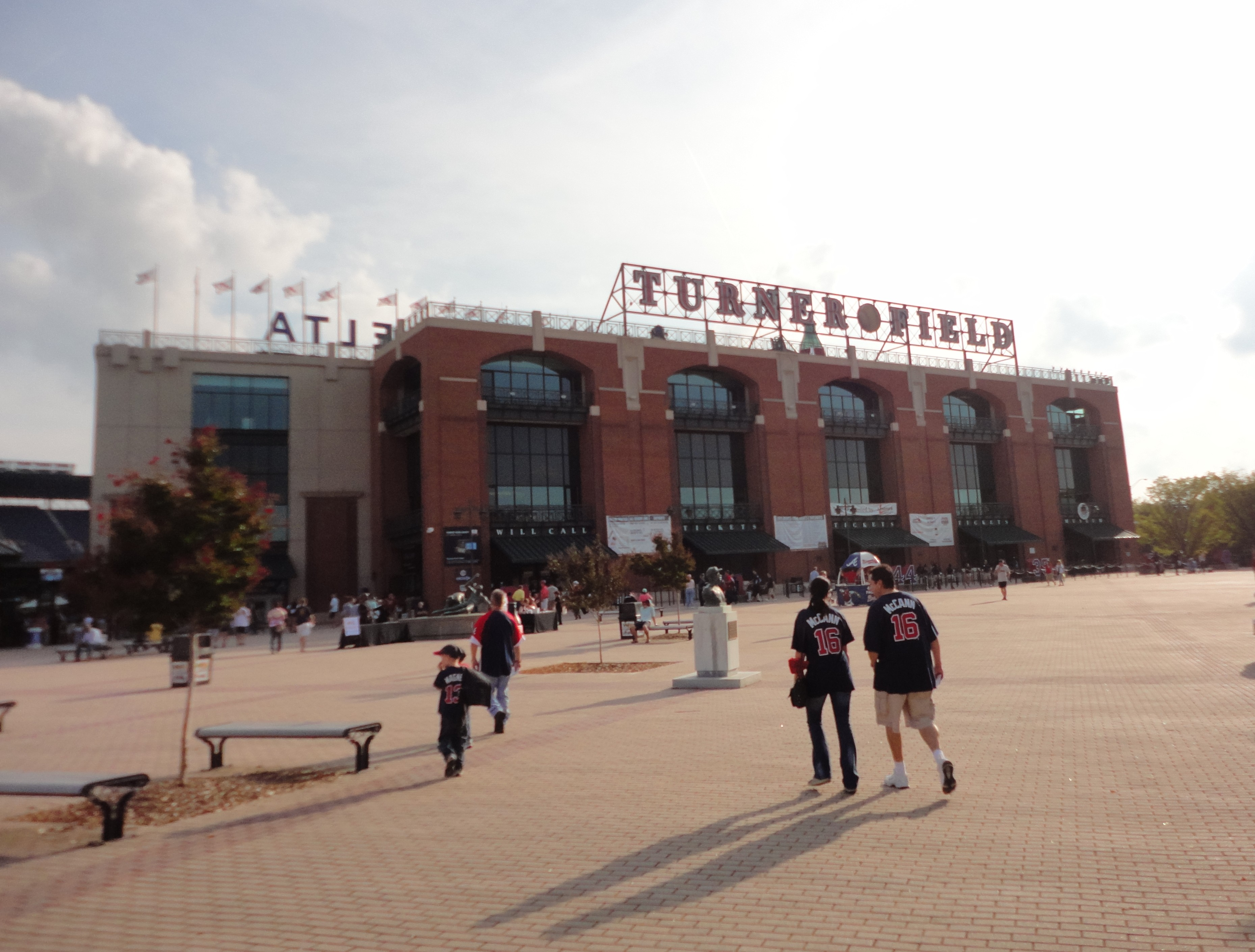 The front of Turner Field, the home of the Atlanta Braves. Image was taken before the final game of the 2011 season.